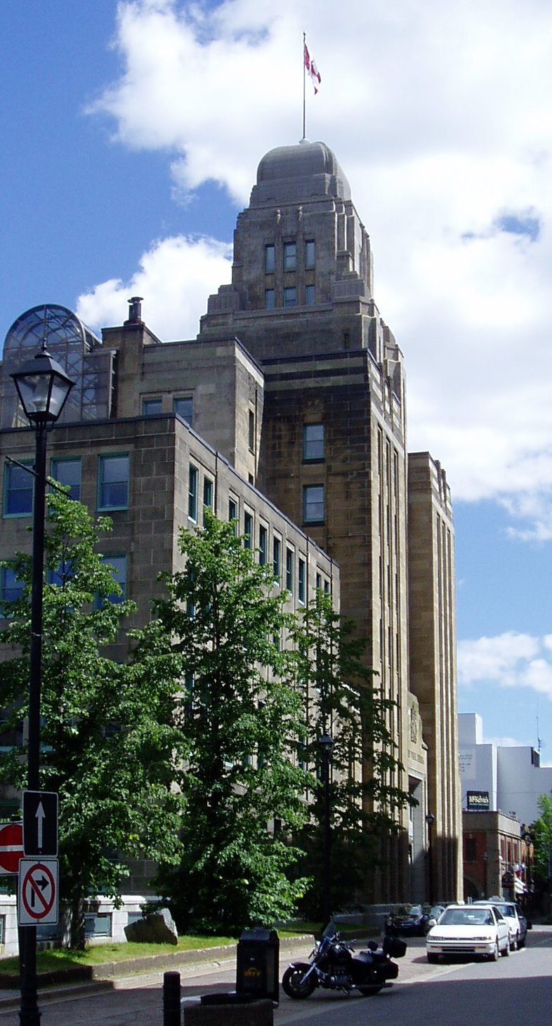 The Dominion Public Building in Halifax, Nova Scotia. Taken by SimonP